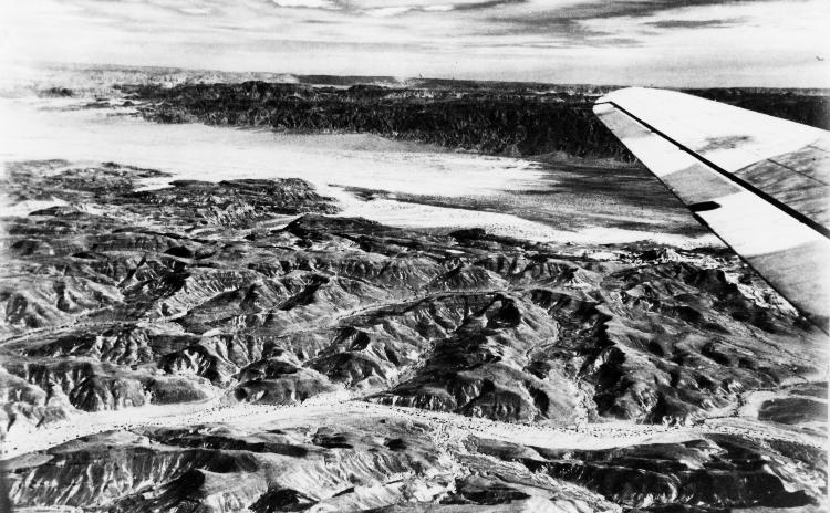 Nahal Hayoun running into the Arabah. Photograph from Palmach archives. 1948.